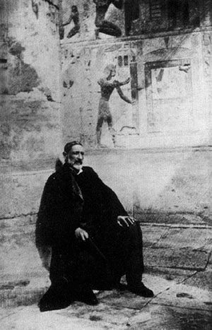 photo of H. Rider Haggard at Abydos, Egypt